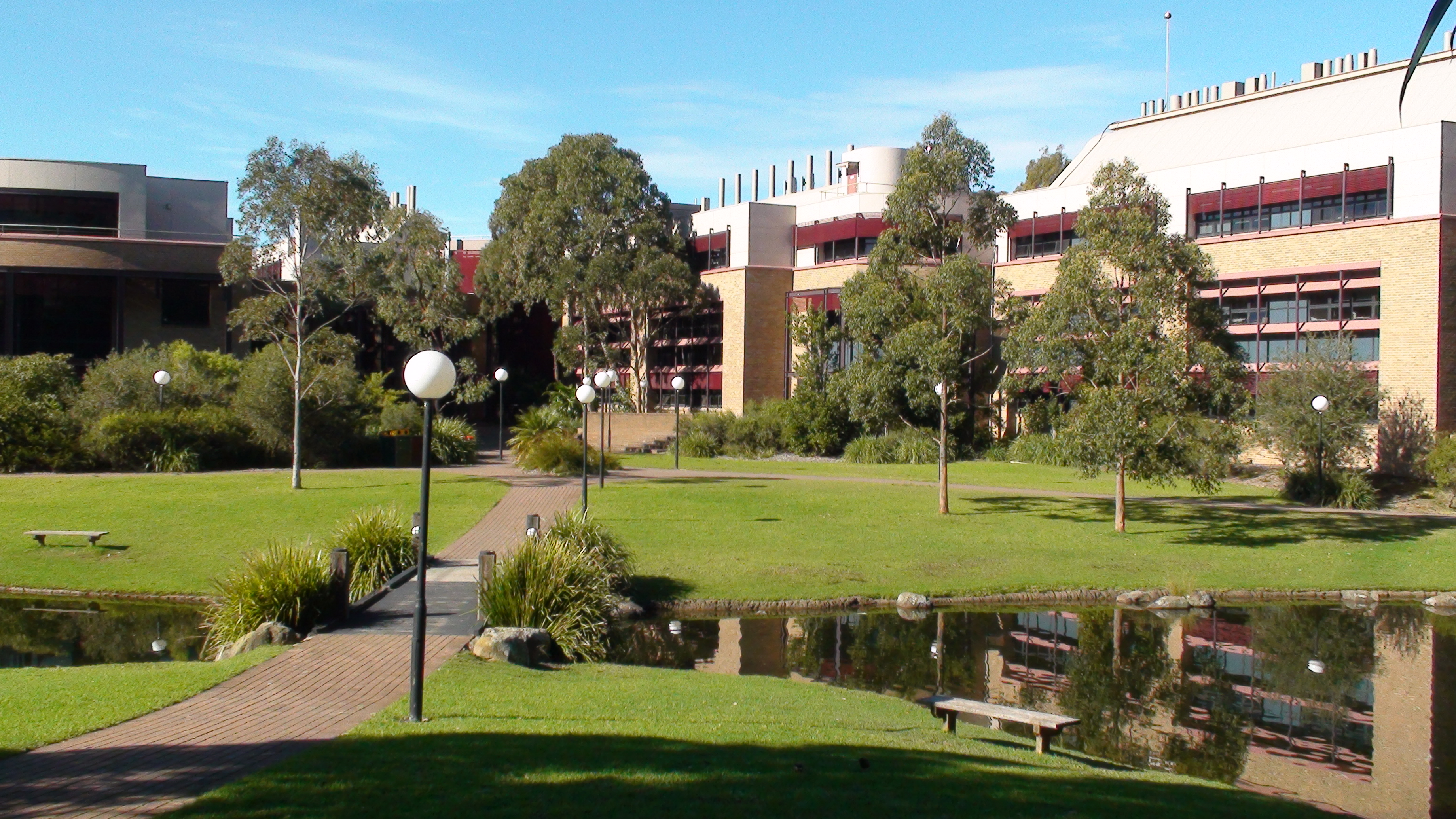 View of the Science buildings at the University of Wollongong as seen from the West.